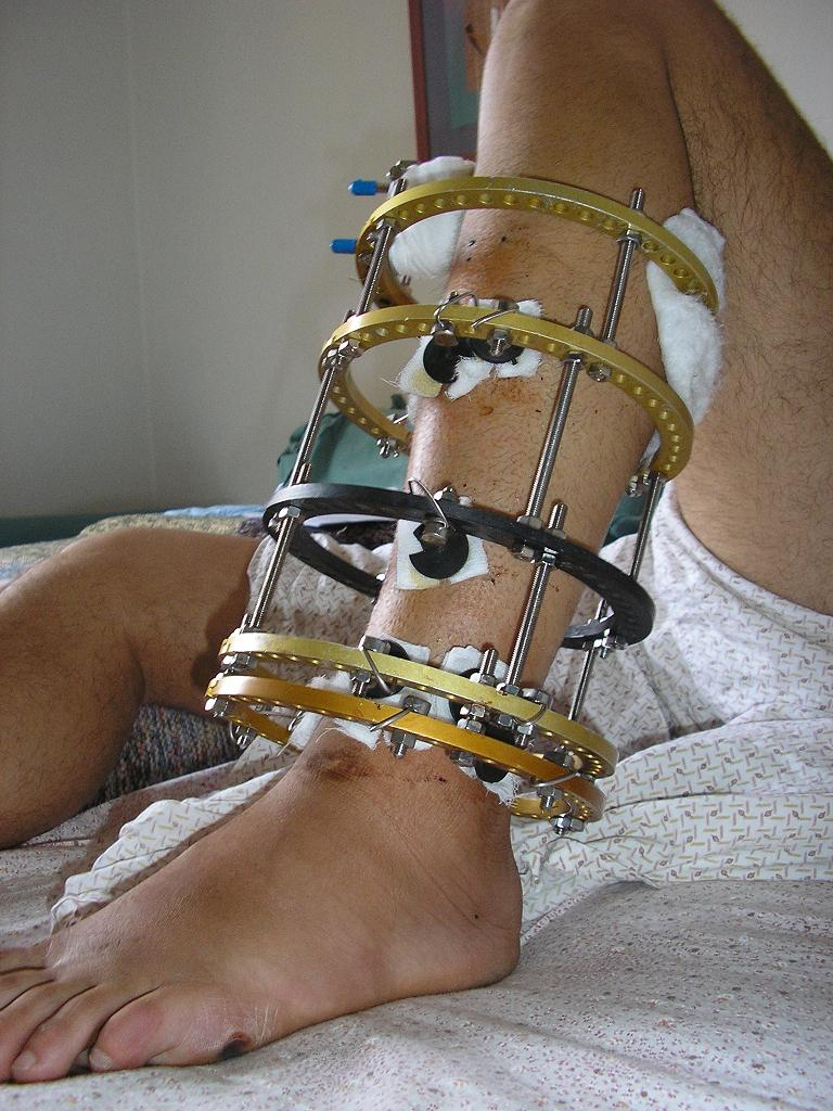 My photo of my leg.